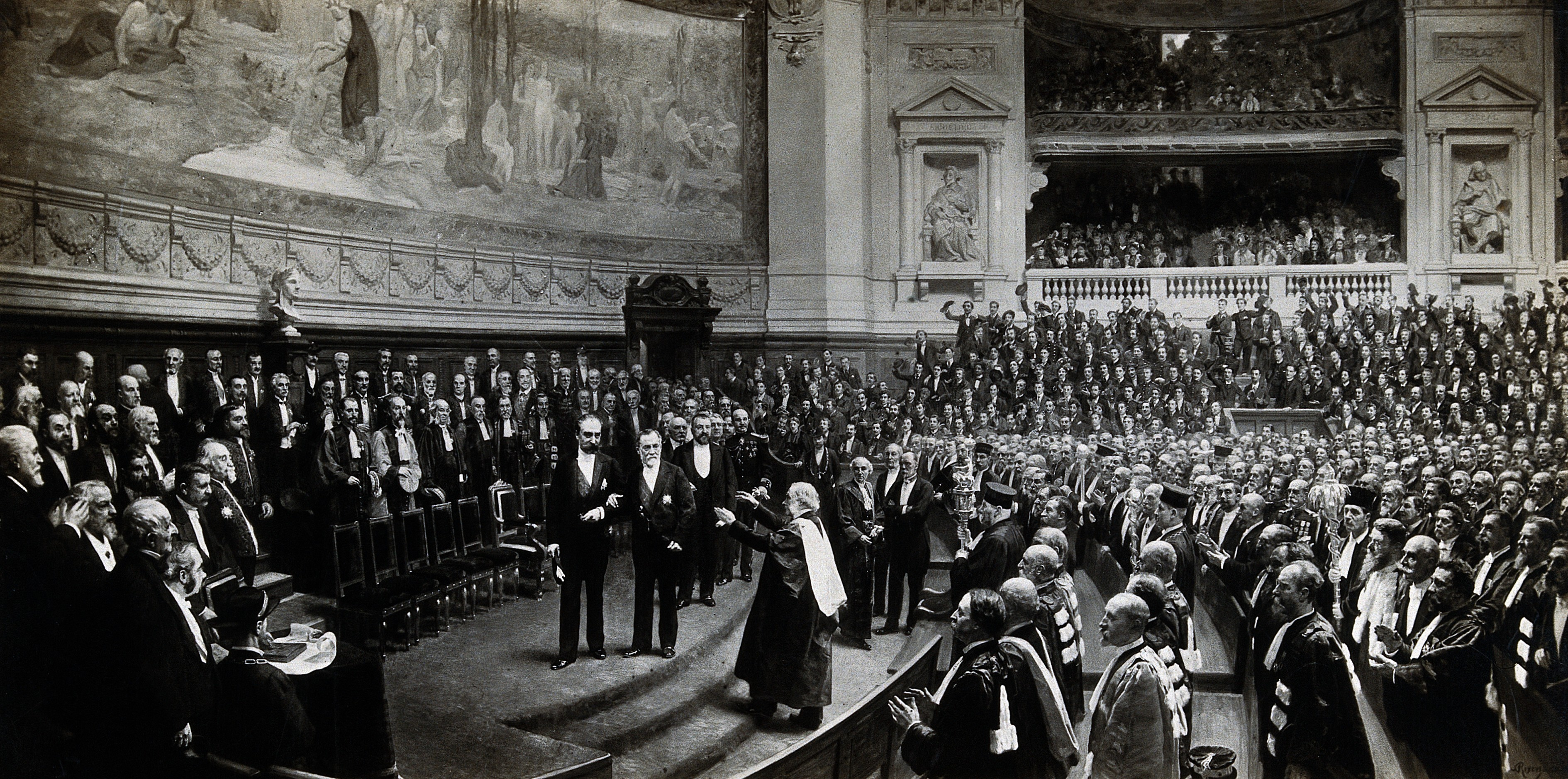 Joseph Lister, Baron Lister acclaims Louis Pasteur at Pasteur's Jubilee, Paris, 1892. Photograph after a painting by Jean-André Rixens. Iconographic Collections Keywords: portrait photographs